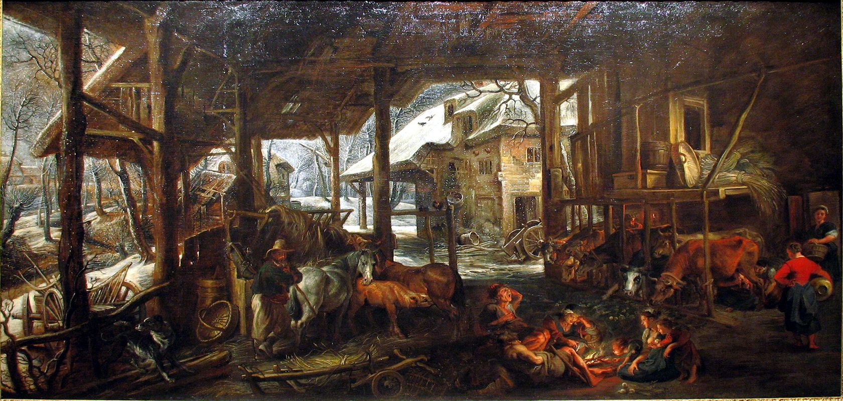 Winter - The Interior of a barn